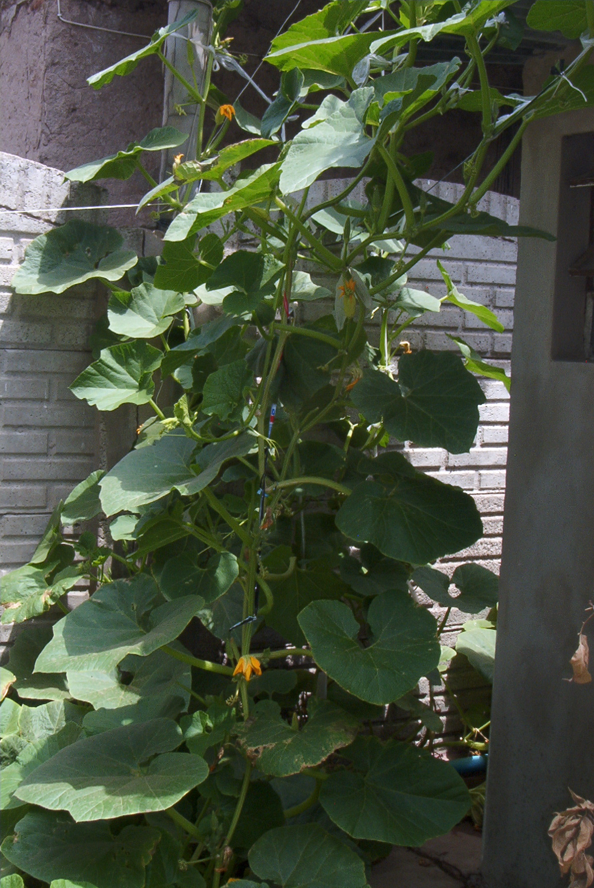 Cucurbita maxima seed commercial name "Zapallo Redondo Gris Plomo". Sown sept 22 2013, photo taken jan 28 2014. Plant climbing onto the roof aided by threads suspended from the roof. Partido de Rivadavia, provincia de Buenos Aires, Argentina.